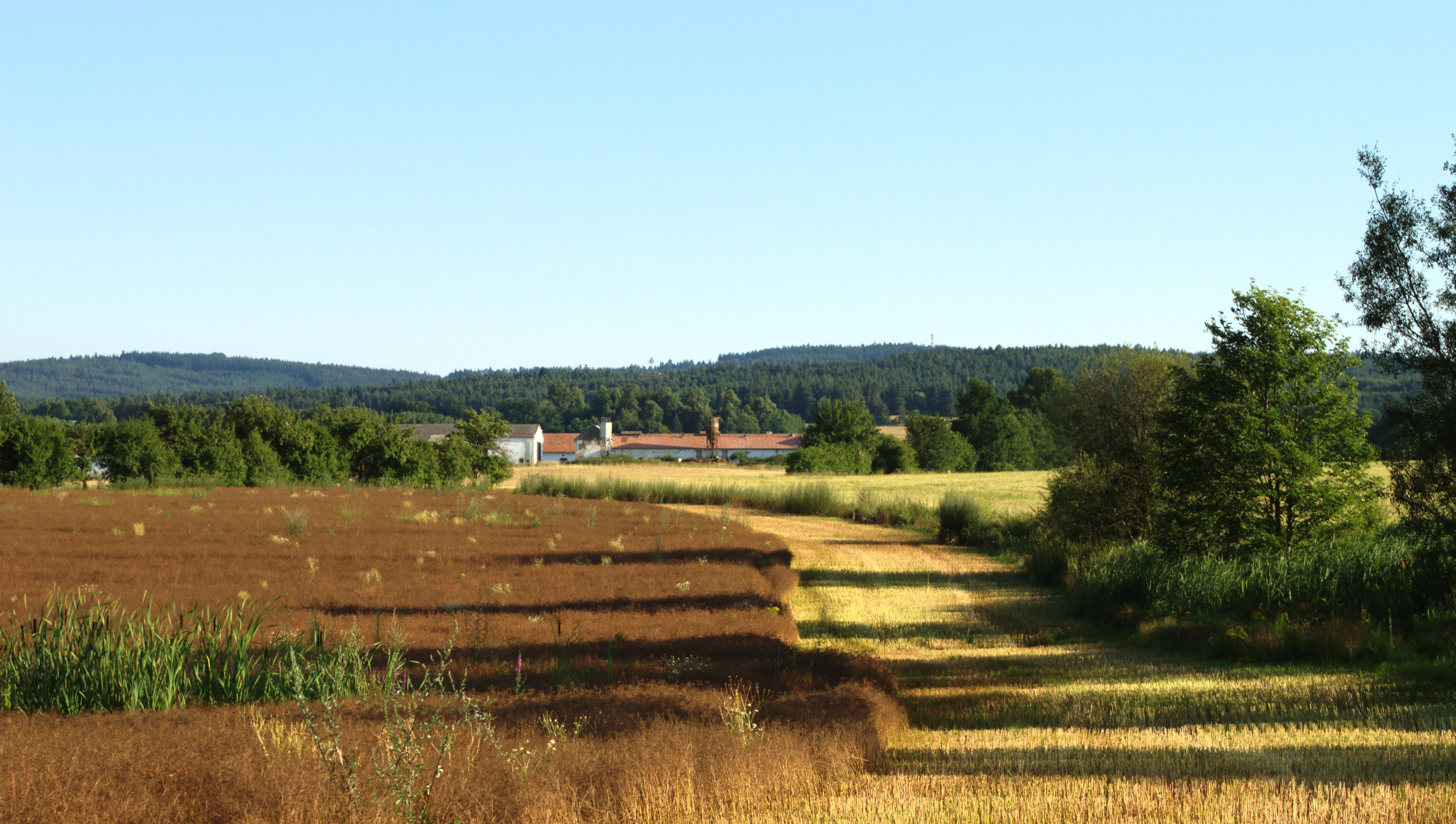 The village of Mladějovice seen from north, from a road from Sudoměř, South Bohemian Region, CZ